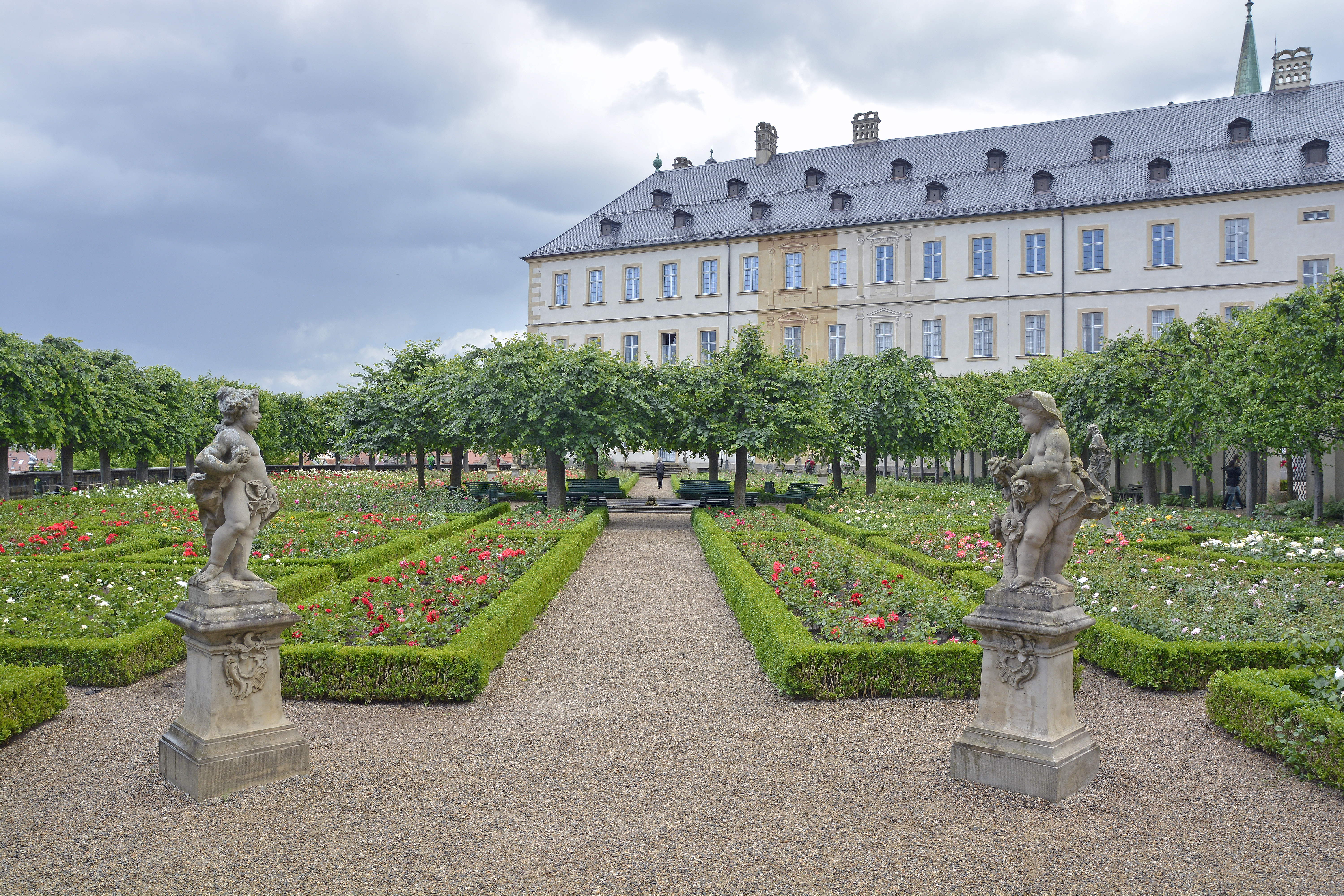 Rose Garden Bamberg (Rosarium)